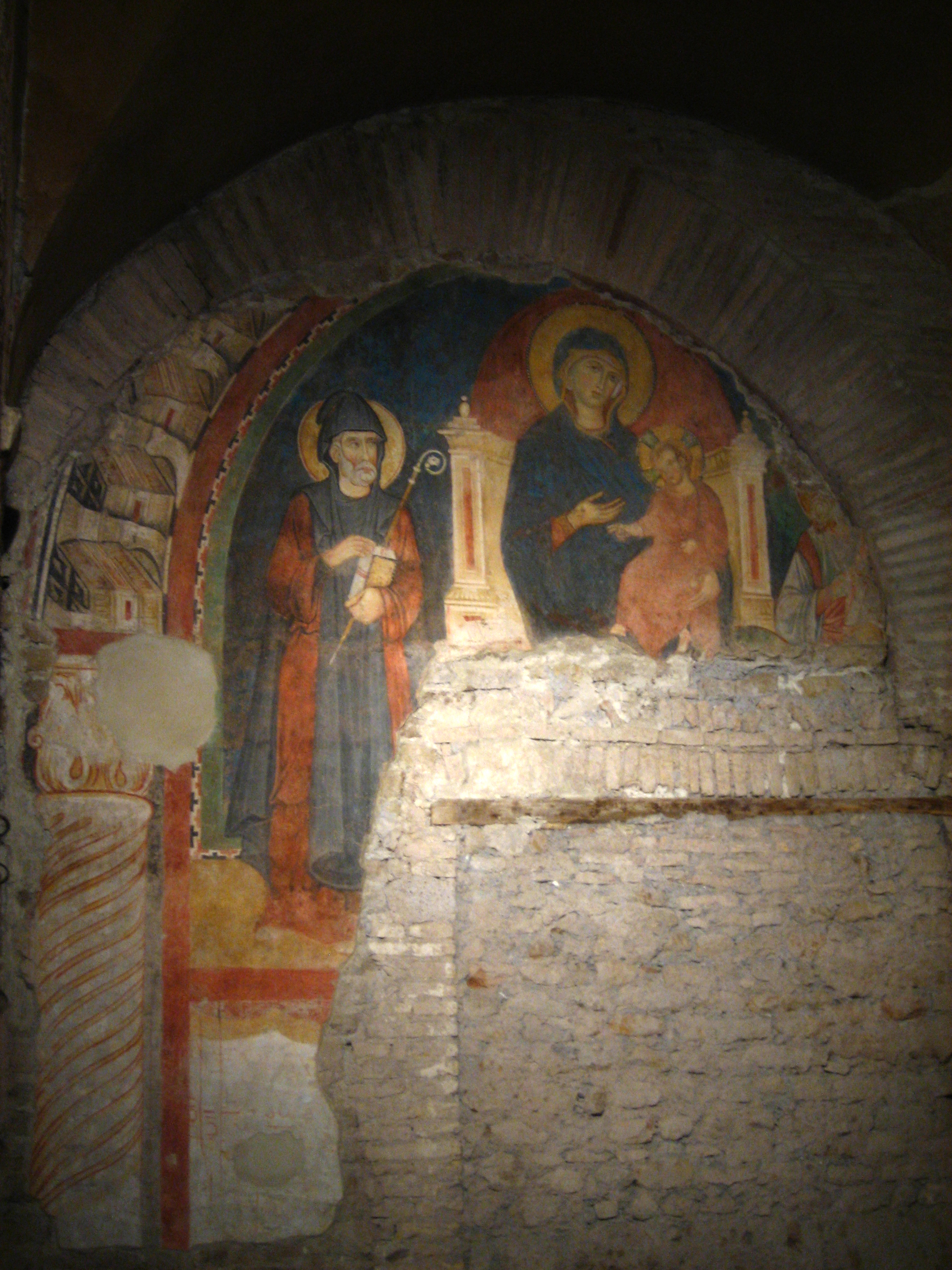 A fresco of the Master of S. Saba, from the end of the thirteenth century.